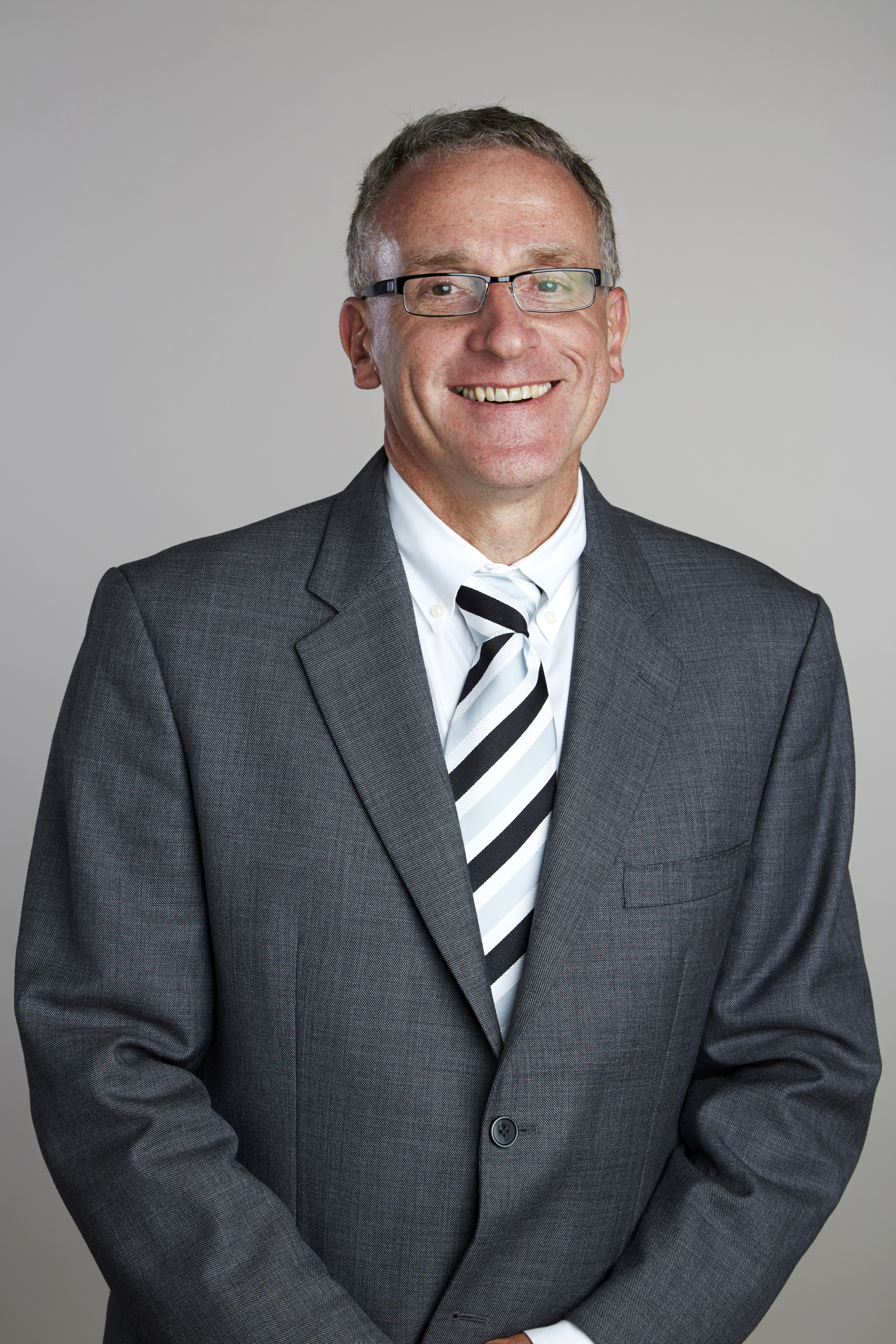 Andrew Read is Evan Pugh Professor of Biology and Entomology, and Eberly Professor in Biotechnology. He is also Director of Penn State’s Center for Infectious Disease Dynamics and Penn State’s new center in Evolutionary Risk Analysis and Mitigation. Andrew received his PhD in evolutionary biology from the University of Oxford after his earlier training at the University of Otago, New Zealand. He was Professor of Natural History at the University of Edinburgh, UK, from 1998 until 2007. Andrew has been elected Fellow of the Royal Society of Edinburgh (2003), Fellow of the Institute of Advanced Study, Berlin (2006), Fellow of the American Association for the Advancement of Science (2012), Fellow of the American Academy of Microbiology (2014), and Fellow of the Royal Society (2015). Andrew Read’s work has revealed the evolutionary forces that shape pathogen virulence, infectivity, vaccine escape and drug and insecticide resistance in a number of significant infections. This helps determine the evolutionary risks associated with medical, public and animal health interventions, and suggests novels ways to ameliorate those risks. Attribution: The Royal Society